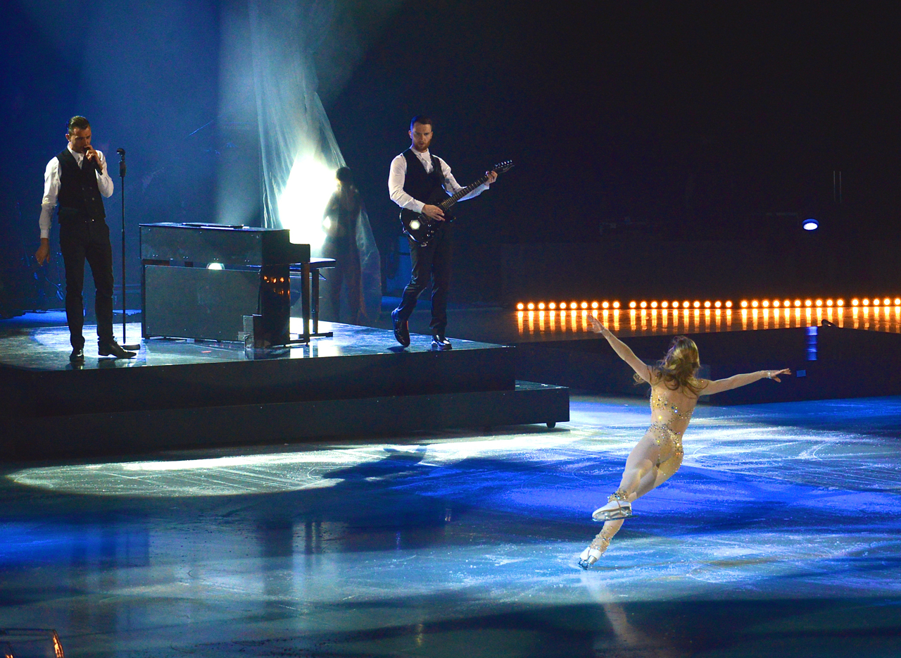 "Art on Ice" at the Globe Arena in Stockholm, March 13, 2014.